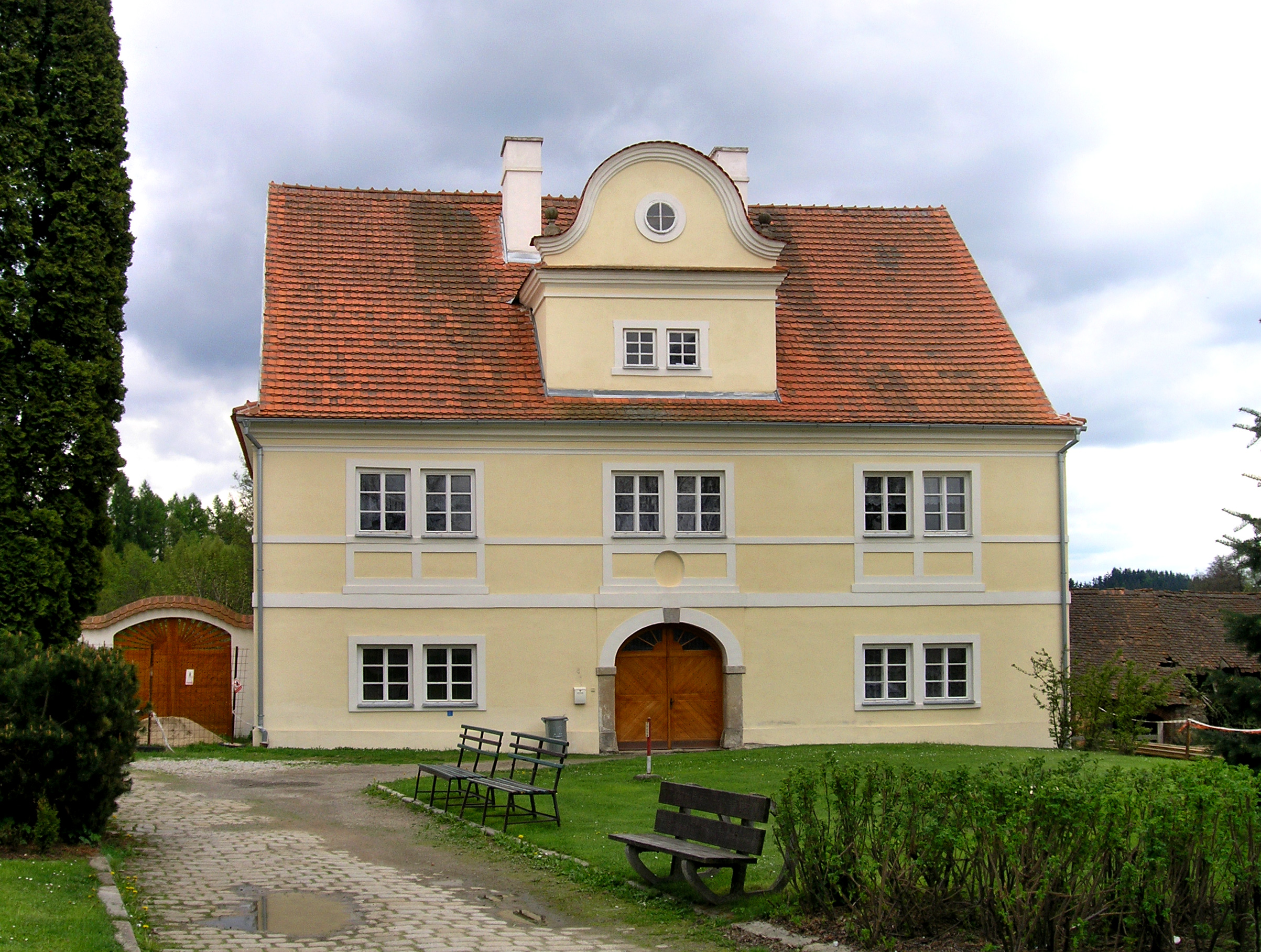 Presbytery at T. G. Masaryka square in Horní Cerekev, Czech Republic